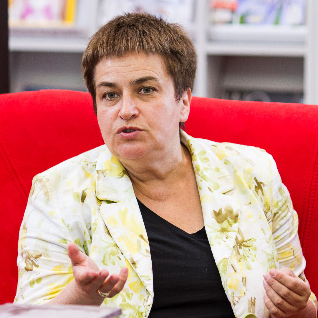 Maryna Hrymych on Authors’ Reading Month 2015, Wrocław, Poland